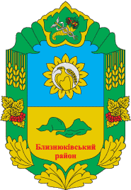 Coats of arms of Blyznukivskyj raions